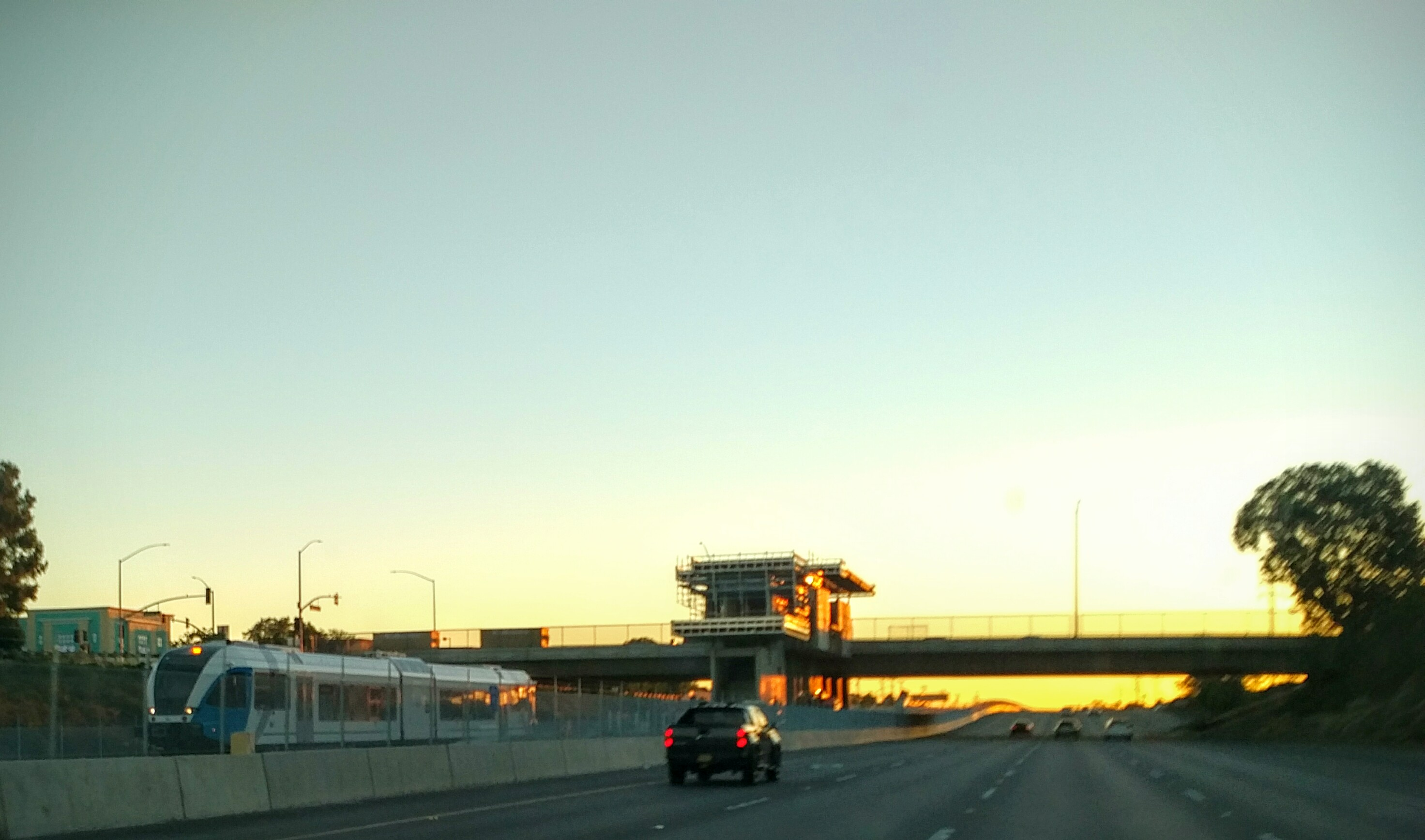 eBART test DMU leaving central Pittsburg, California, United States transfer point in the median of Highway 4 at sunset heading east to the Hillcrest Avenue, Antioch terminus